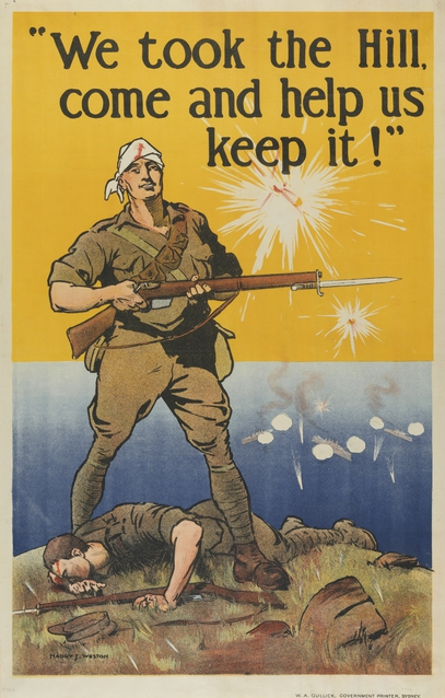 Australian recruiting poster depicting a wounded soldier standing triumphantly on a battlefield. In the background are battleships, plumes of smoke indicating their involvement in the battle. The 'Hill' in the title may refer to the battle of Hill 60, August 1915. Title: "We took the Hill, come and help us keep it" from (The Australian War Memorial)